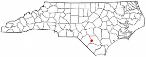 Category:North Carolina Dot Maps